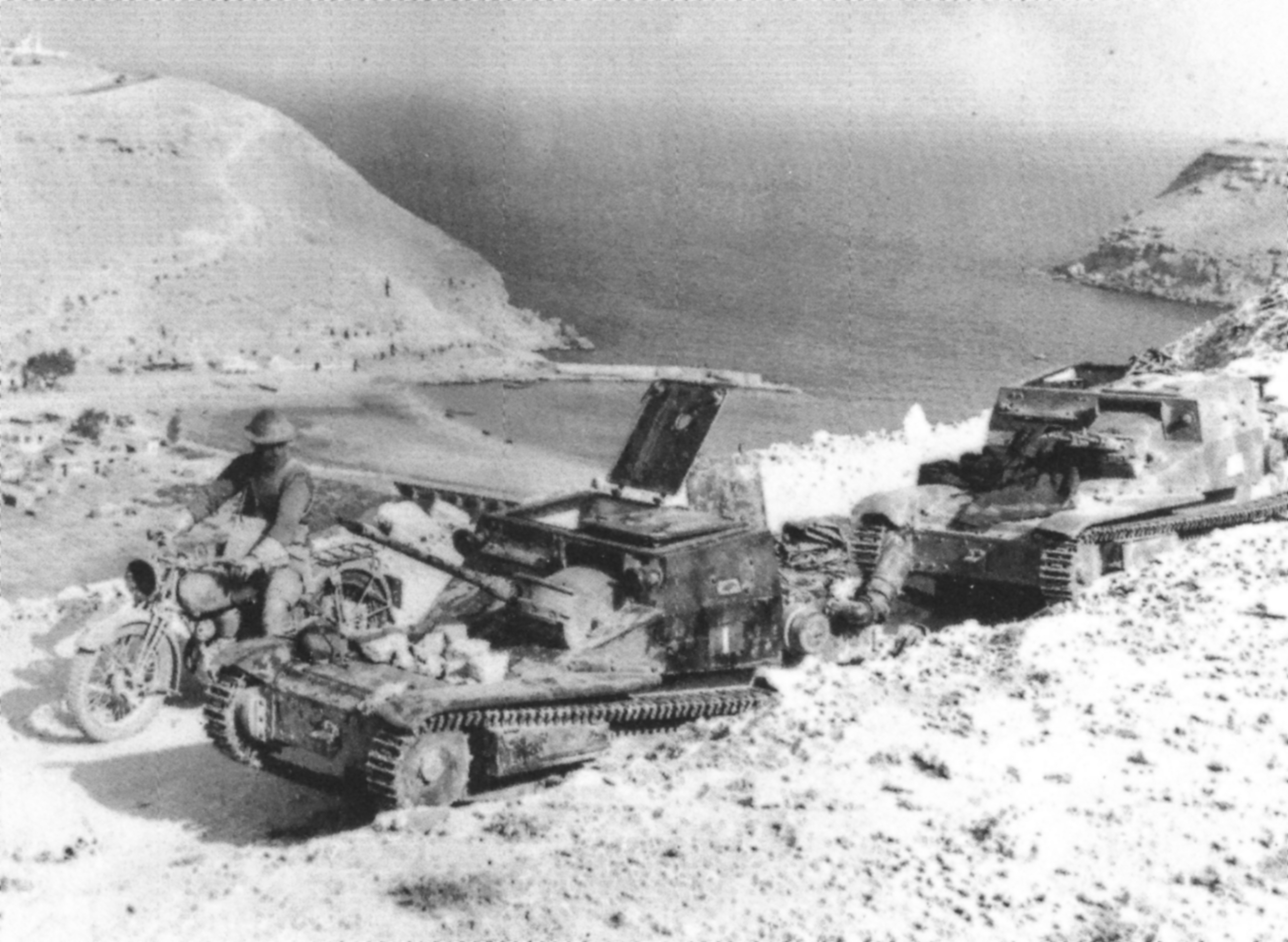 (L3/35). (The original photo is in the AWM's collection, but this image has been scanned from Operation Compass 1940: Wavell's whirlwind offensive (ISBN 0-275-98286-6) in higher resolution in order to show detail differences between the basic L3 tankette and its L3 cc variant. That's why there's no AWM's markings on the image. The AWM's summary: 1941-07. TWO CAPTURED ITALIAN CARRO VELOCE CV33 TANKETTES ON THE ROAD OVER-LOOKING BARDIA HARBOUR. BARDIA CAN BE SEEN ON THE FAR HILL. (NEGATIVE BY B.M.I.). In the book above there's also mentioned that the vehicle on left has a Solothorn (sic) 20 mm anti-tank rifle. Bardia and the coastline-harbor in 1940, during WWII in Cyrenaica, eastern Libya.